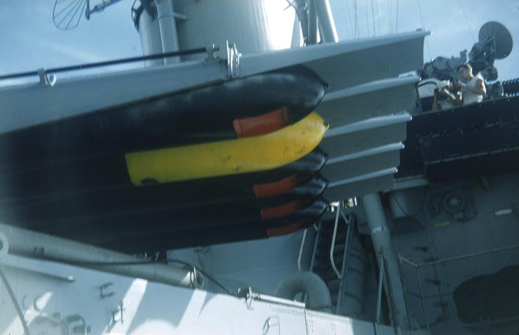 Mark 15 torpedos in the Mark 14 quintuple torpedo tubes of the U.S. Navy destroyer USS O'Brien (DD-725), circa 1952-1954. Note the yellow exercise warhead on one torpedo and the red rectangles on the bottom of the warheads of the other four torpedoes. Photographed from O'Brien's main deck, looking up and forward from the midships' starboard side.